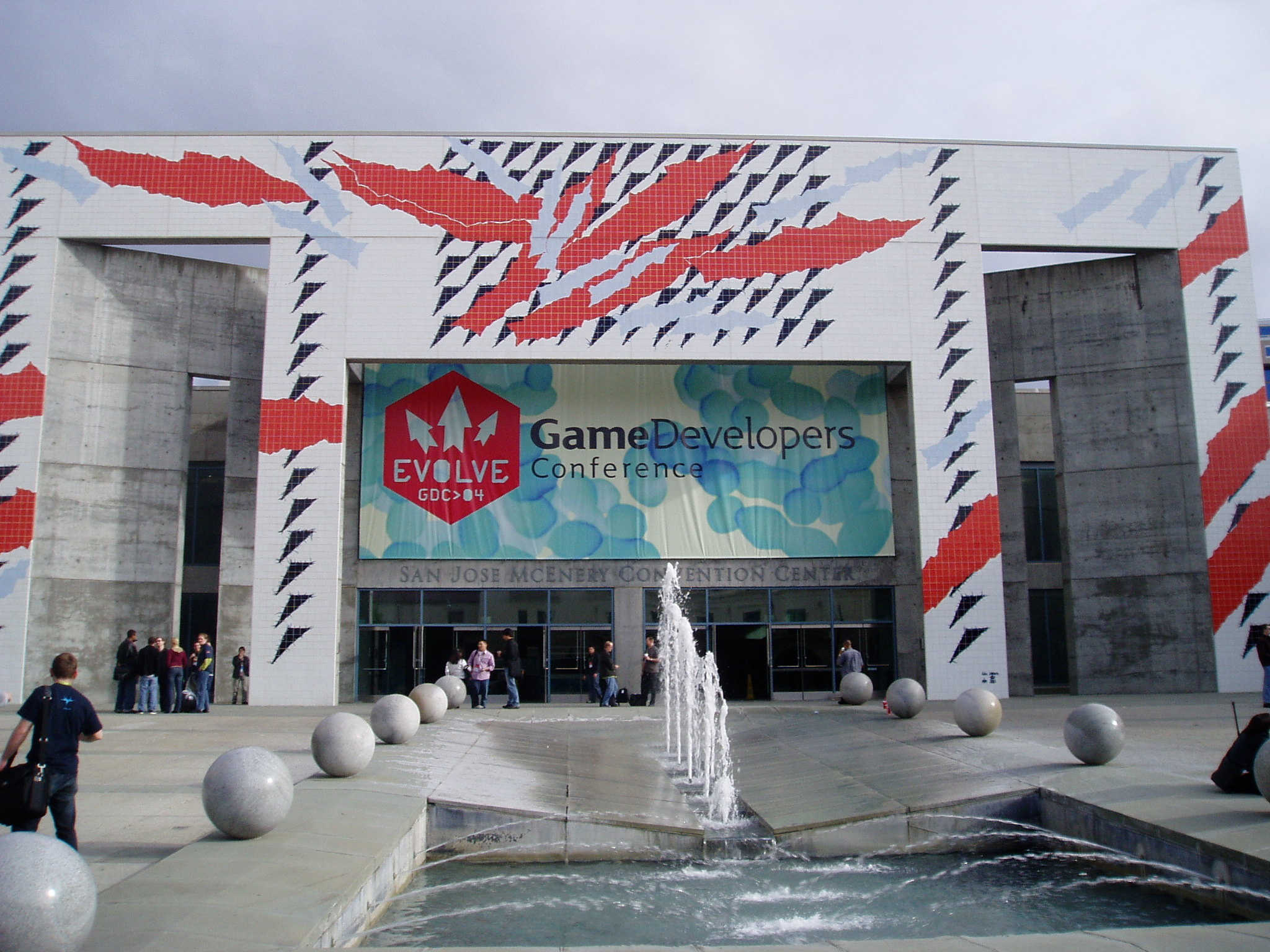 Game Developers Conference Entrace